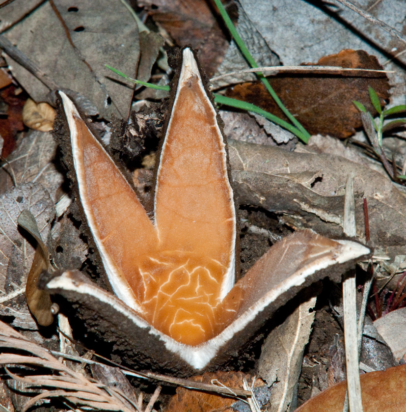 Chorioactis geaster. These specimens appeared along a foot trail to the Blanco River through the upland rim rock Live Oak - Ashe Juniper - Cedar Elm woodland savanna in a wildlife preserve near Fischer Store Road, Hays County, Texas. They seem to be associated with Cedar Elm trees. Found on January 12, 2006